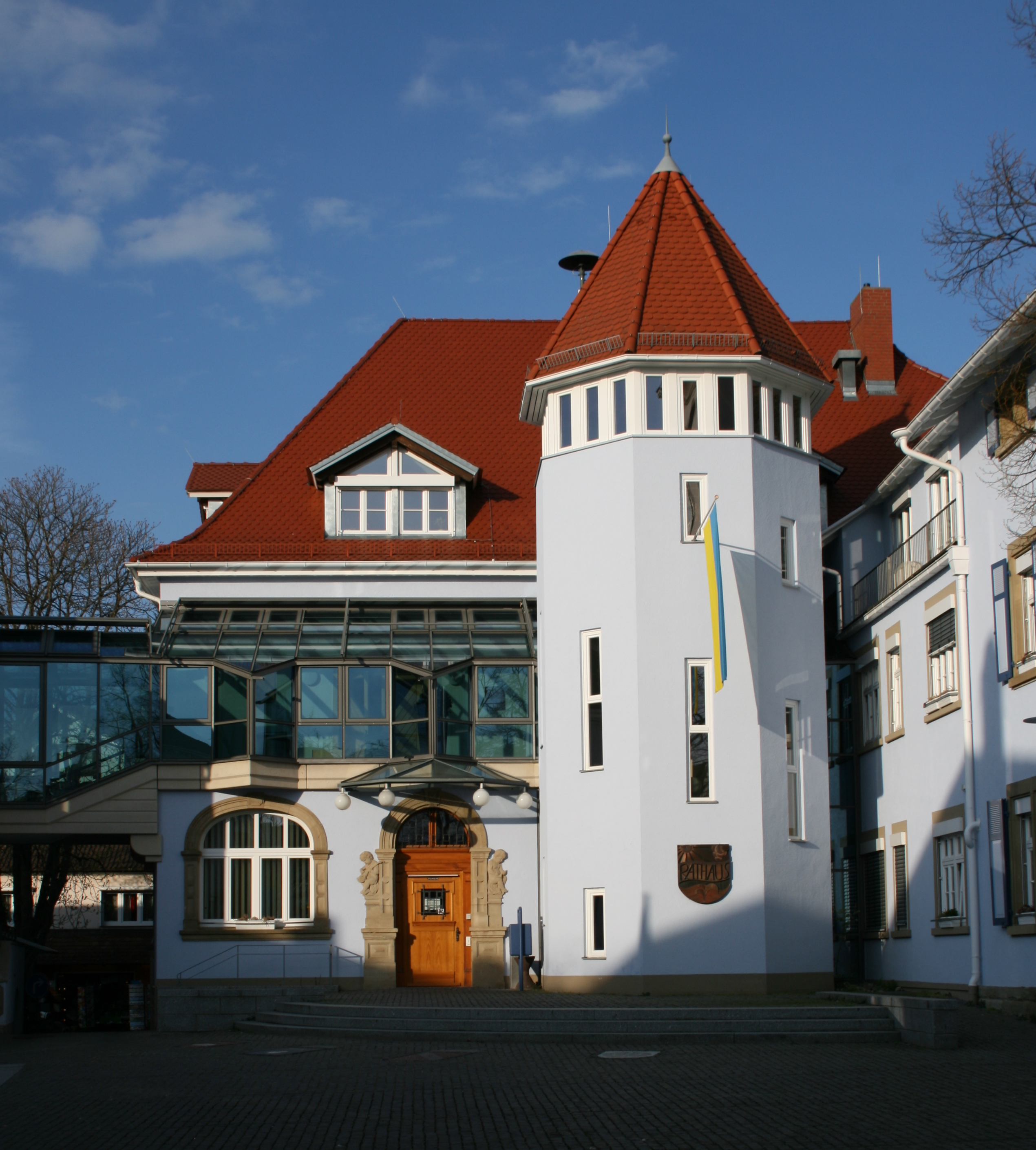 City hall of Bad Krozingen